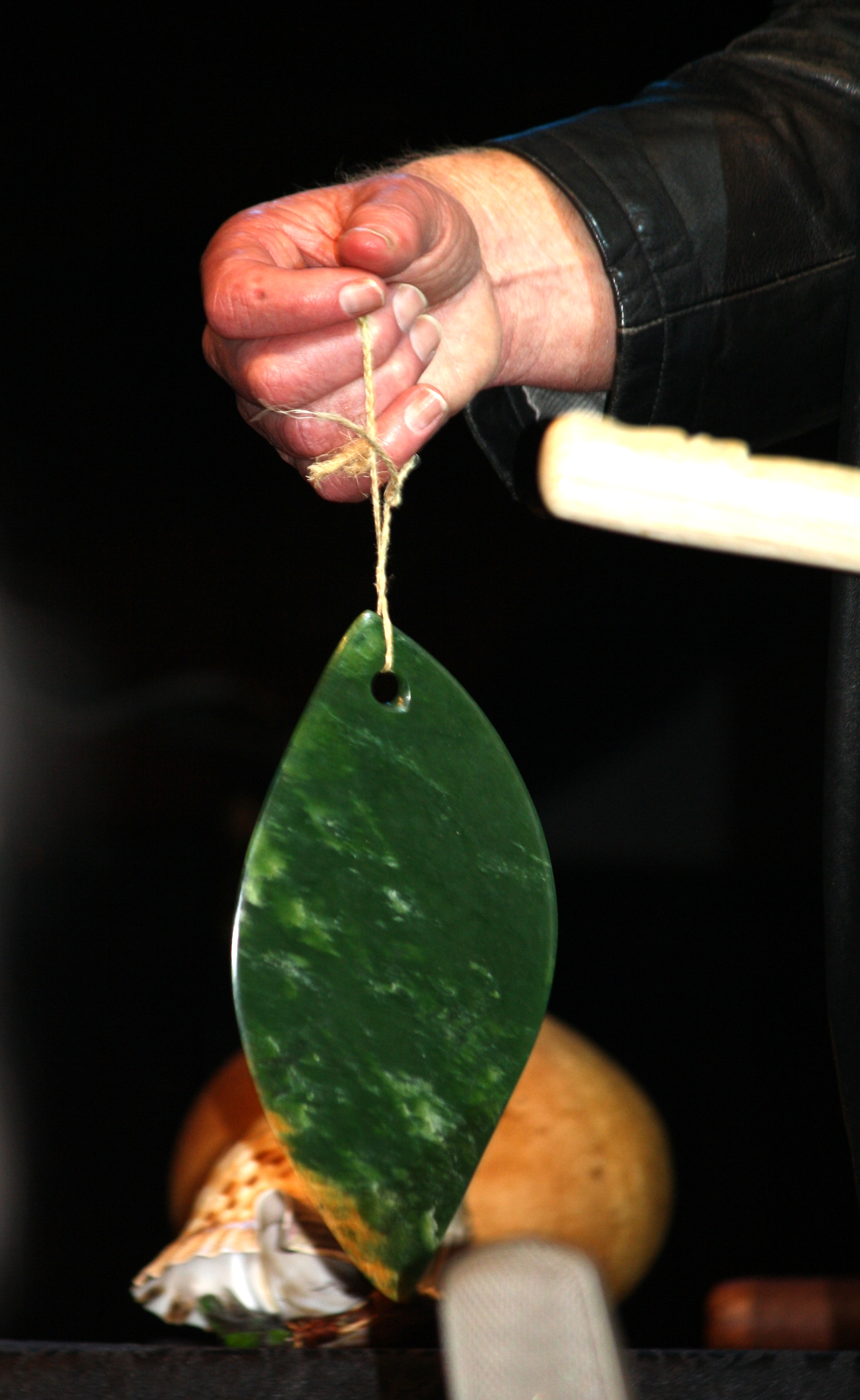 A pahū pounamu (greenstone gong), a traditional Māori musical instrument, held by Richard Nunns in 2011.